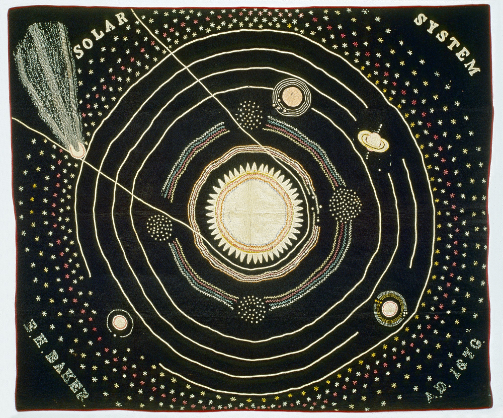 Created in 1876 by Ellen Harding Baker and used to assist with her astronomy lectures. The quilt has a wool top, embellished with wool-fabric applique, wool braid, and wool and silk embroidery. It is currently owned by the Smithsonian Institution, donated by Patricia Hill McCloy and Kathryn Hill Meardon.